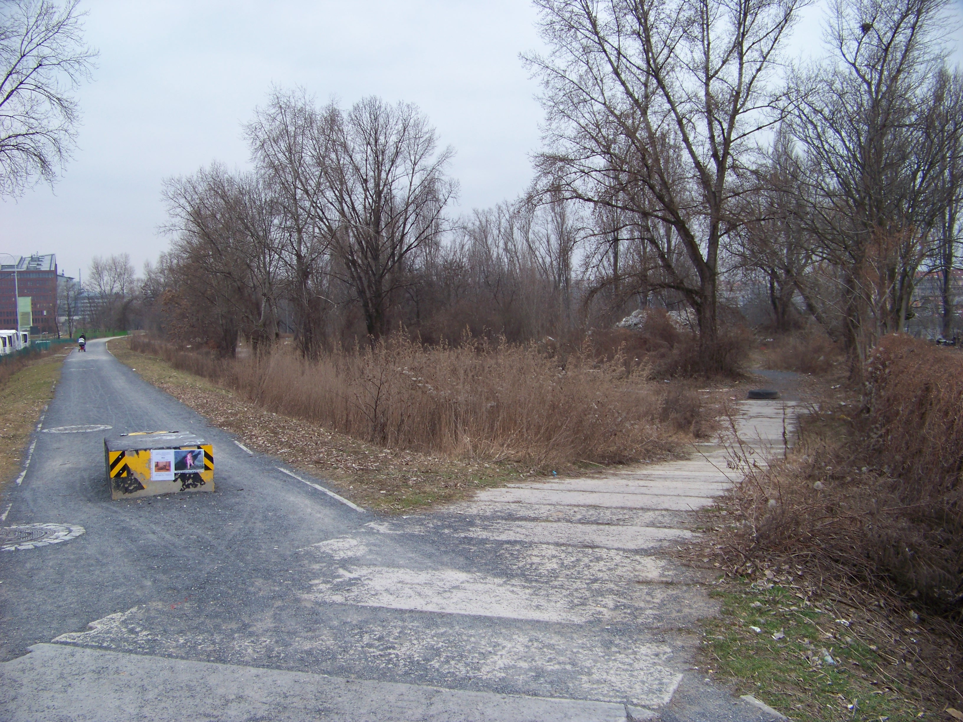 Prague-Karlín, the Czech Republic.